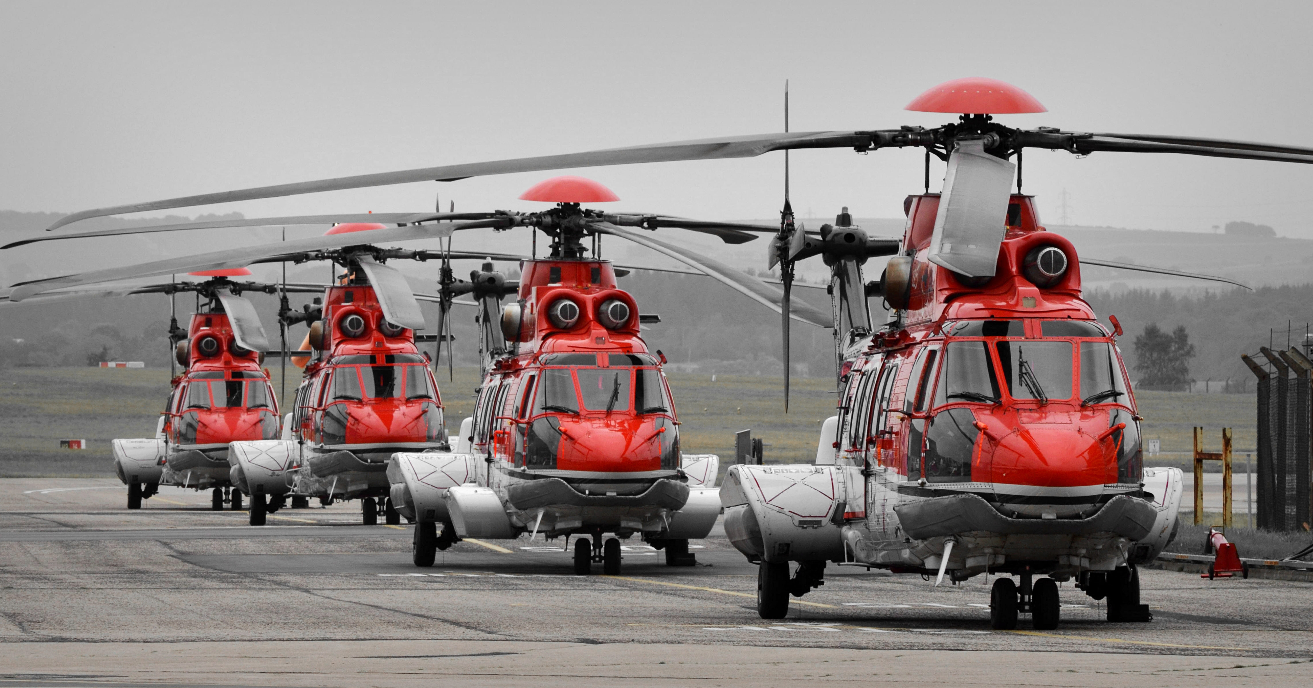 A line-up of 4 CHC Airbus Helicopters H225 Super Puma 2 at Aberdeen Airport, waiting for commencement of the day's work. Aberdeen is the world's busiest heliport.